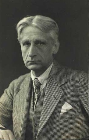 Harald Slott-Møller (1864-1937), Danish painter and ceramicist